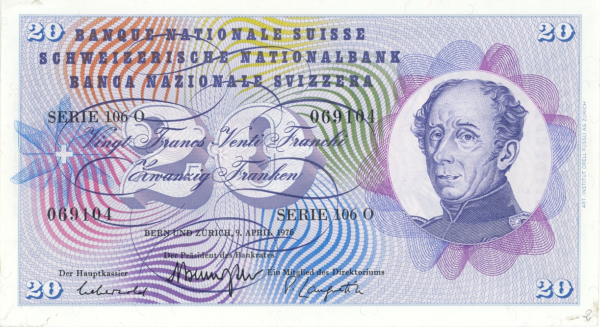 Front of the 20 Swiss Francs banknote, part of 5th series of Swiss banknotes (in circulation 1956-1980). Depicts General Guillaume Henri Dufour